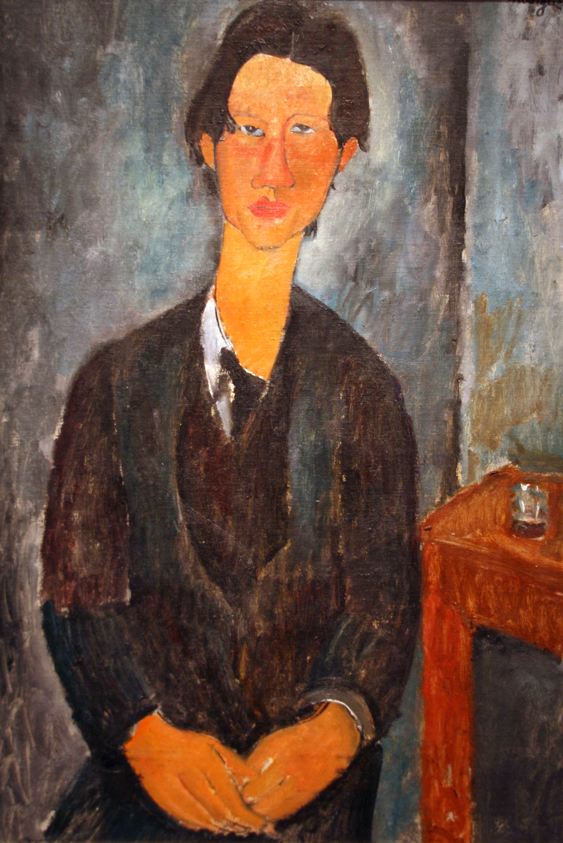 Chaim Soutine, 1917 by Amedeo Modigliani, oil on canvas National Gallery of Art, Washington, D. C., online collection